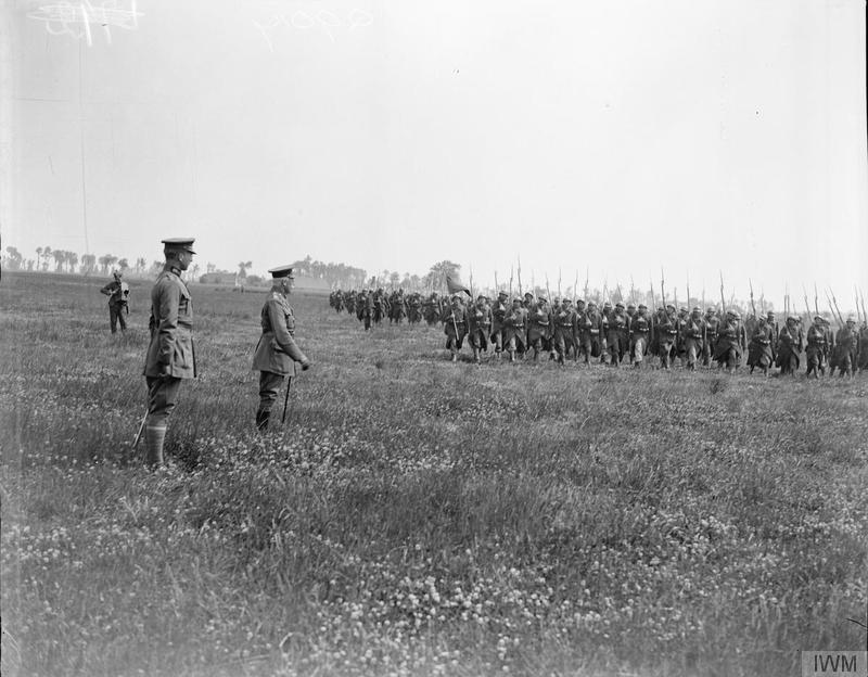 The Belgian Army on the Western Front, 1914-1918 Belgian troops marching past King Albert I of the Belgians at Houthem, 2 July 1918.